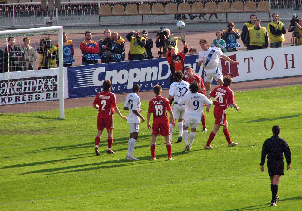 FC Dynamo Kyiv and FC Metalurh Zaporizhia in the Ukrainian Cup final in Kyiv.